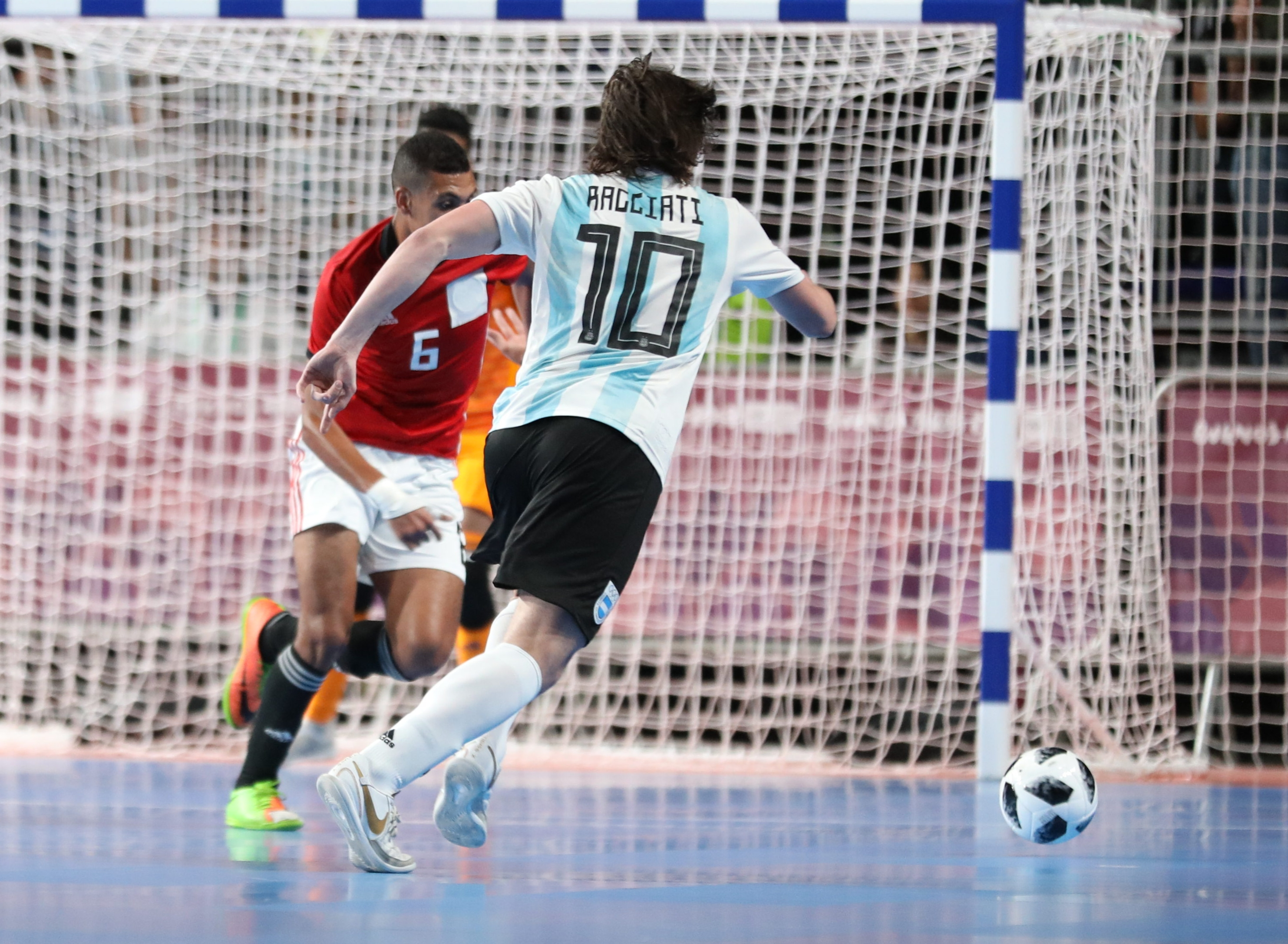 Futsal, Boys First Round: Argentina vs. Egypt (2:2)